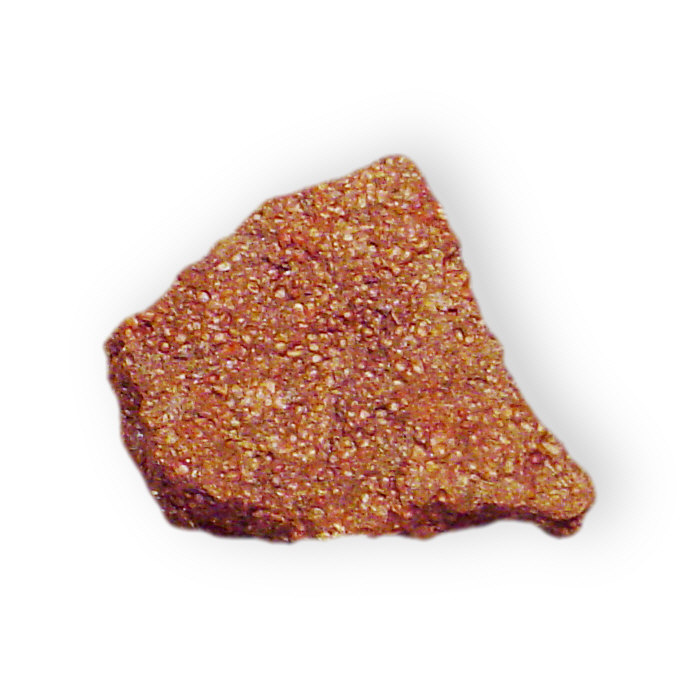 Hematite - oolitic with shale Iron Oxide. Clinton, Oneida County, New York.